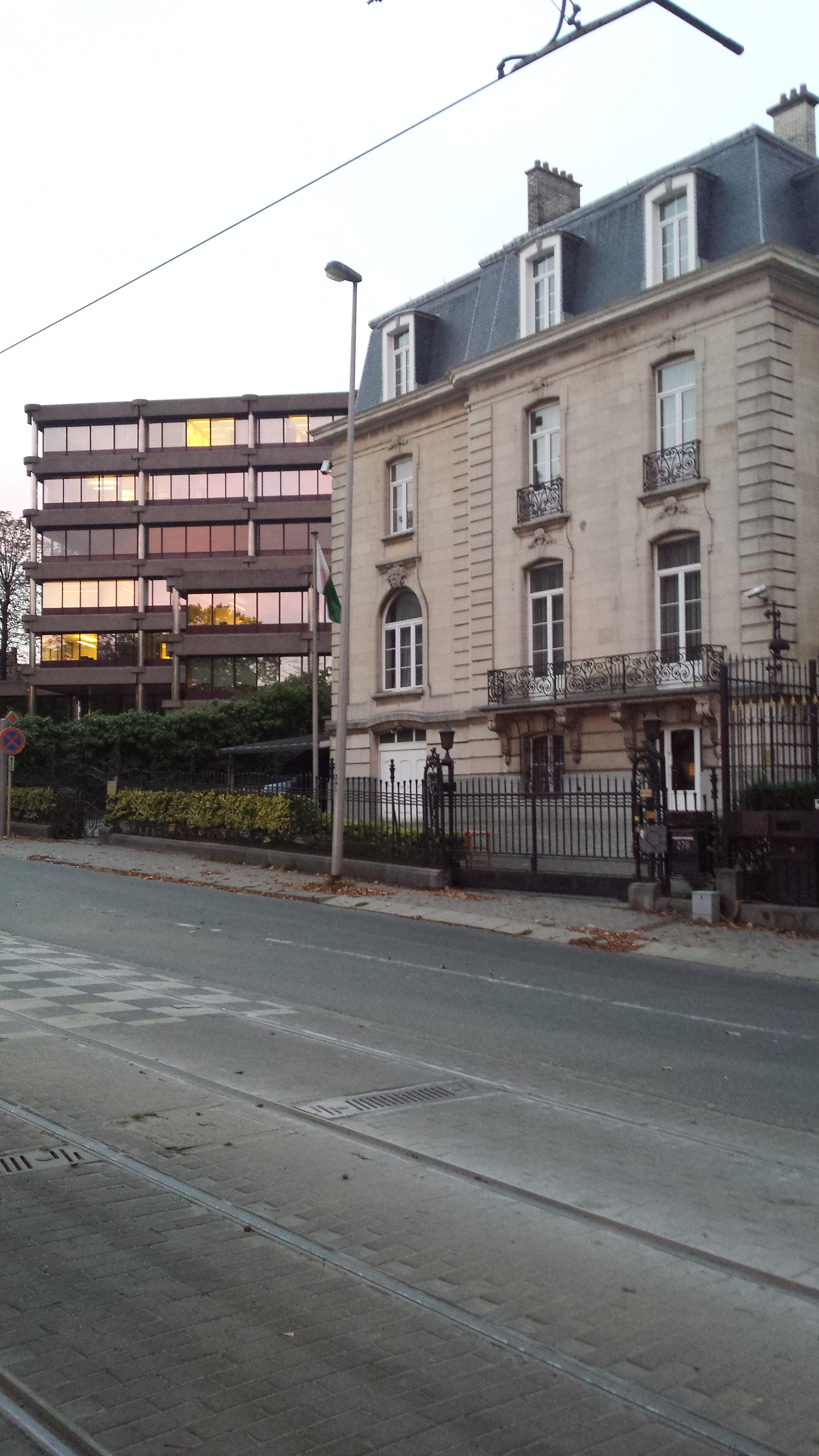 Embassy of Madagascar in Brussels